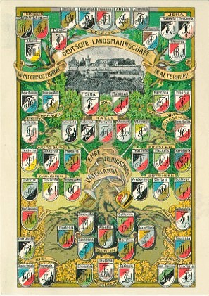 Couleurkarte DL